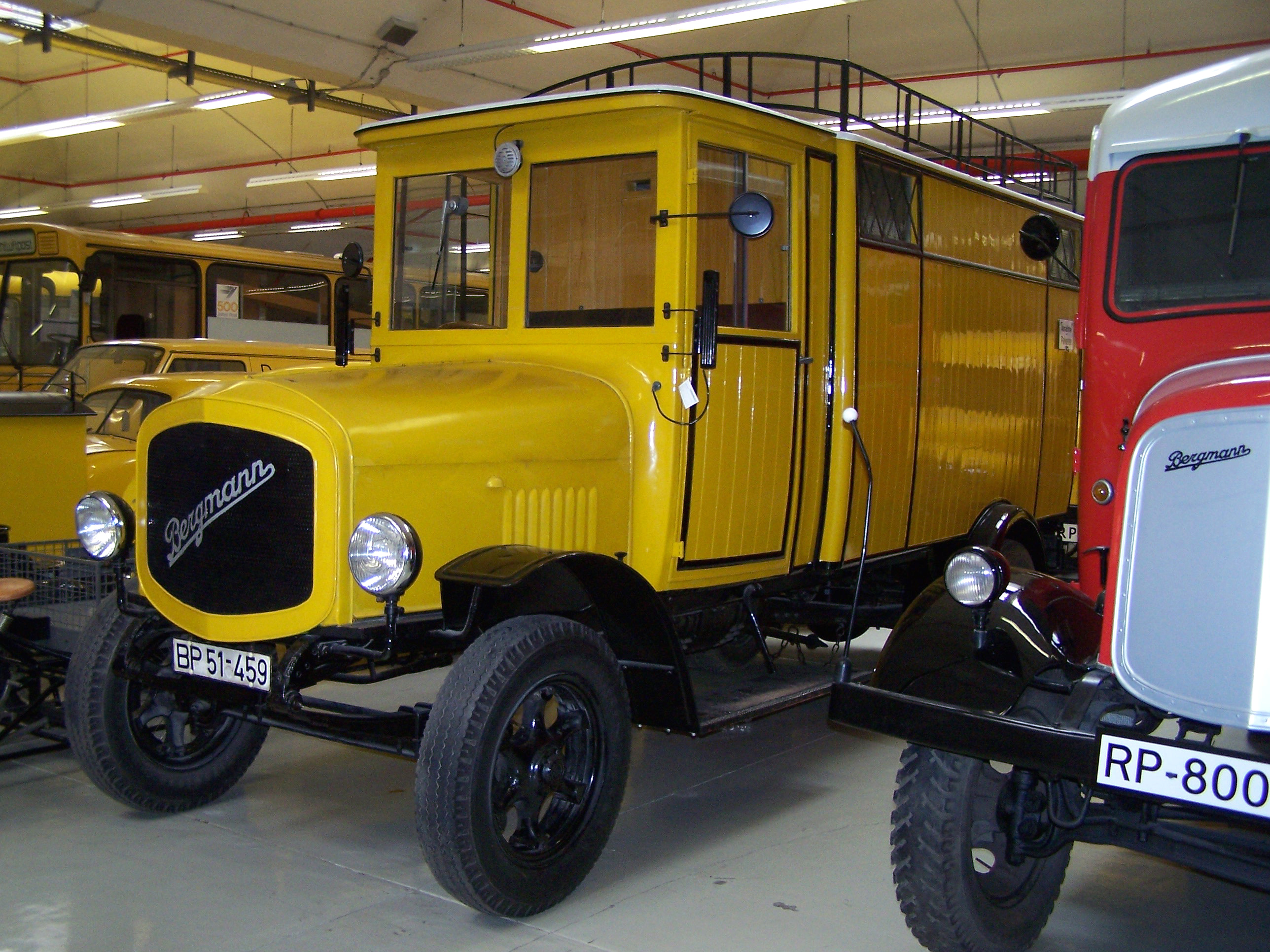 Bergmann parcel delivery van with electric motor of the 1920s, in the depot of the Museum for communication Frankfurt am Main in Heusenstamm